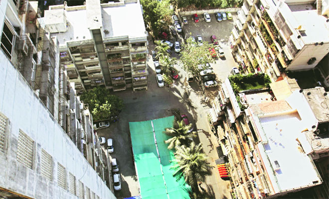 This image is an aerial shot of the Campa Cola Compound from one of the buildings